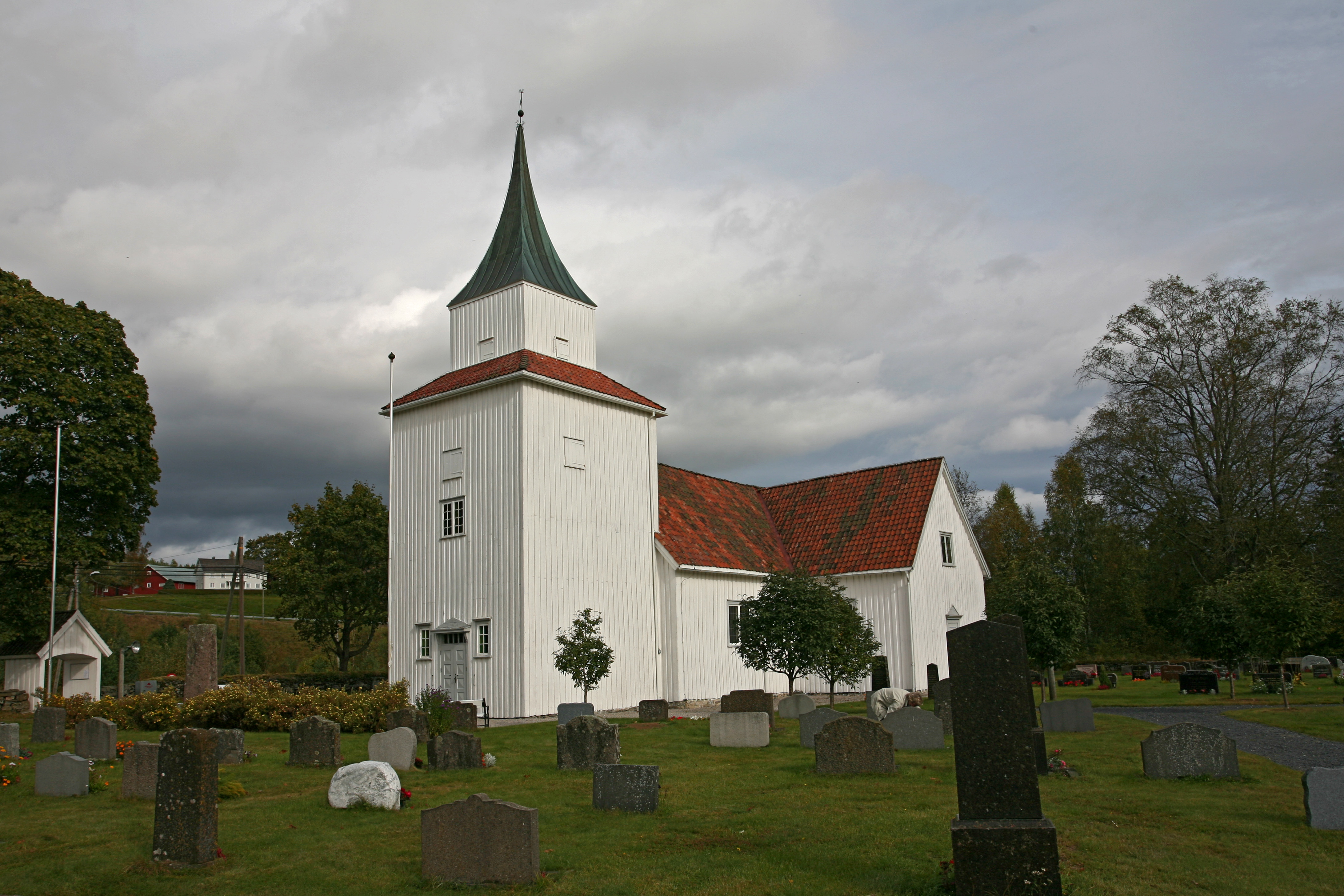 Picture of Sannidal kirke (Telemark - Norway)